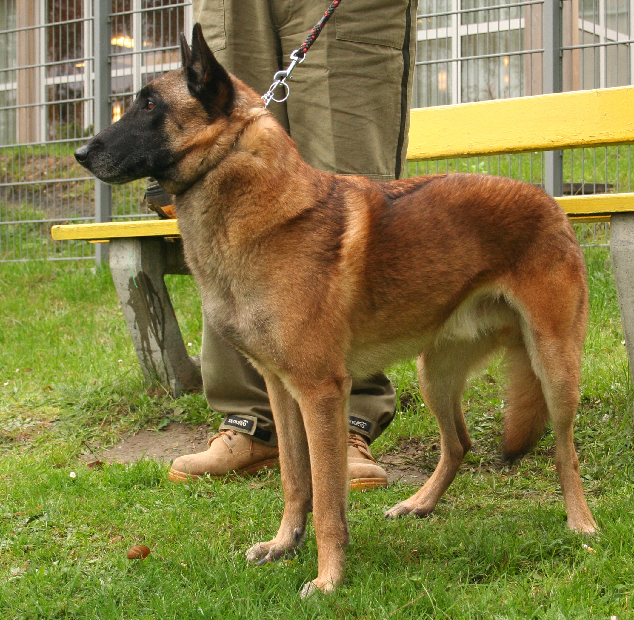 Belgian Shepherd Malinois during show of dogs in Rybnik - Kamień, Poland